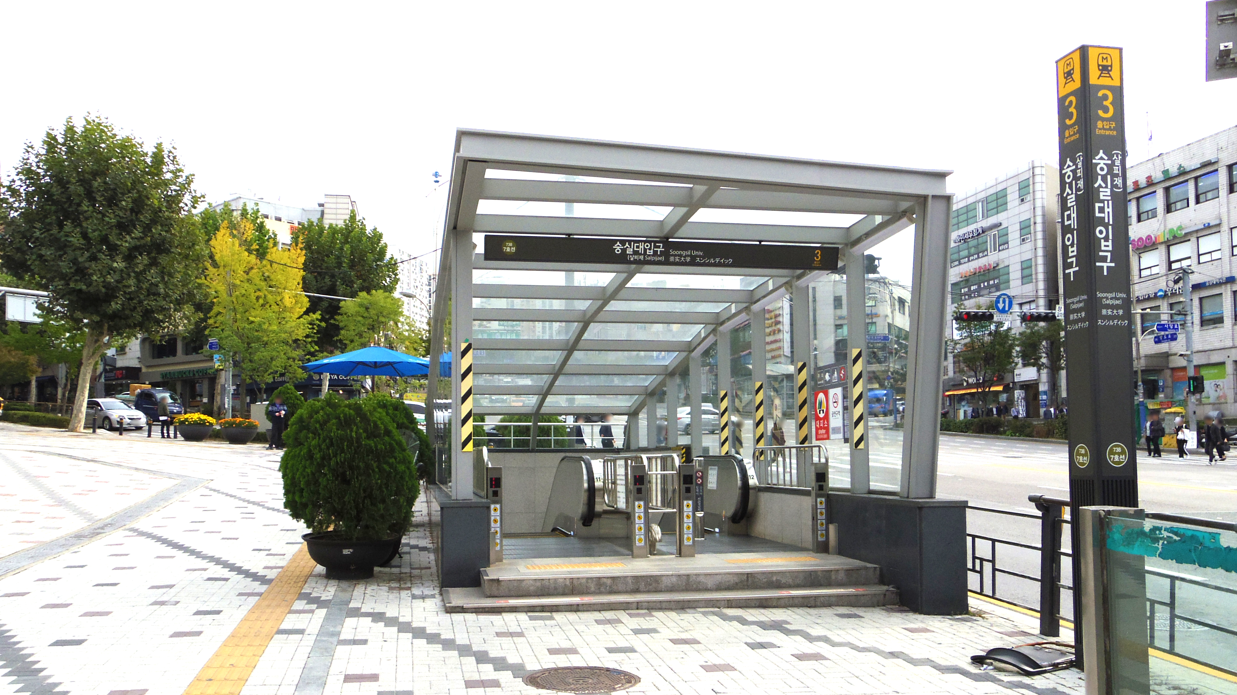 The no.3 entrance to Soongsil University Station on the Seoul Metro Line 7 in Dongjak-gu, Seoul, Republic of Korea(South Korea)